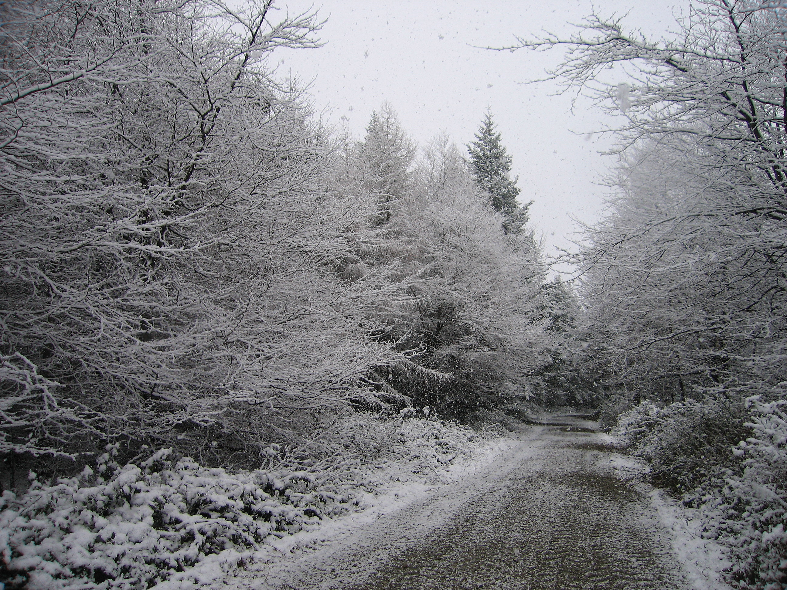 February snow in County Wicklow, off Blackhill Rd nr Wicklow Town, Ireland.